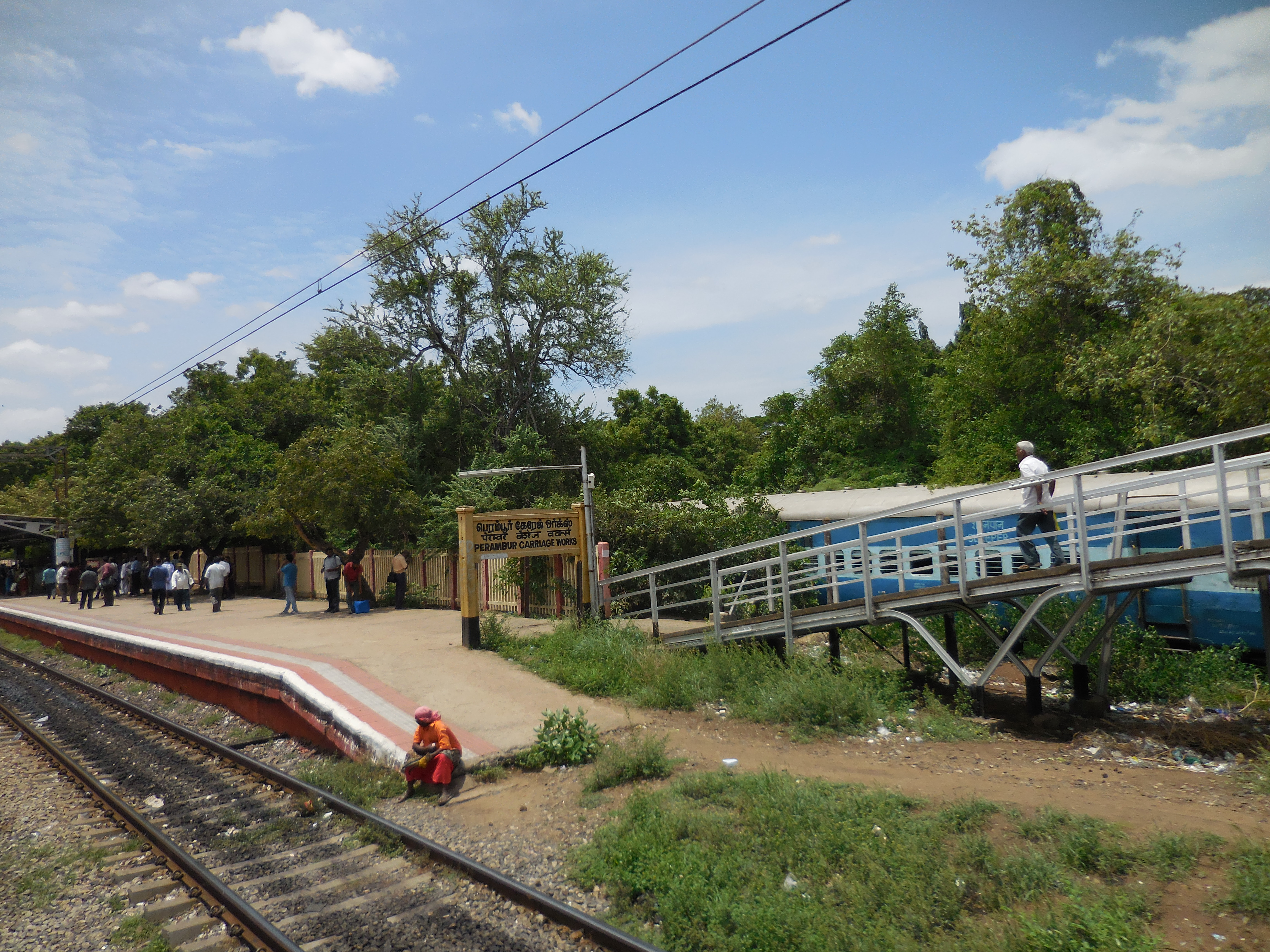 Perambur Carriage Works railway station, Chennai, western end, taken on 15 July 2014 at noon.